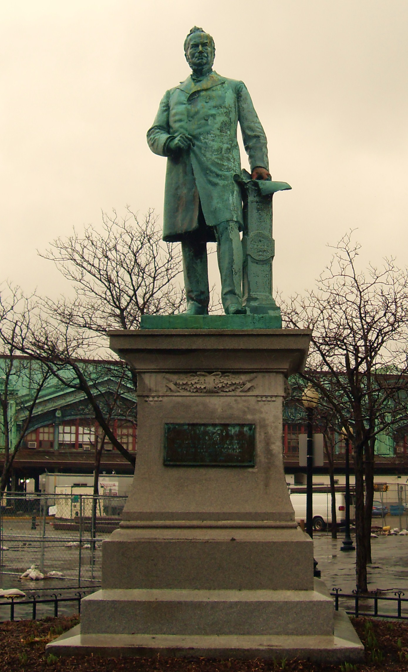 Statue of Samuel Sloan (railroad executive) in Hoboken, NJ, with his ferry terminal in background.